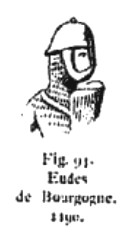 Odo I, Duke of Burgundy